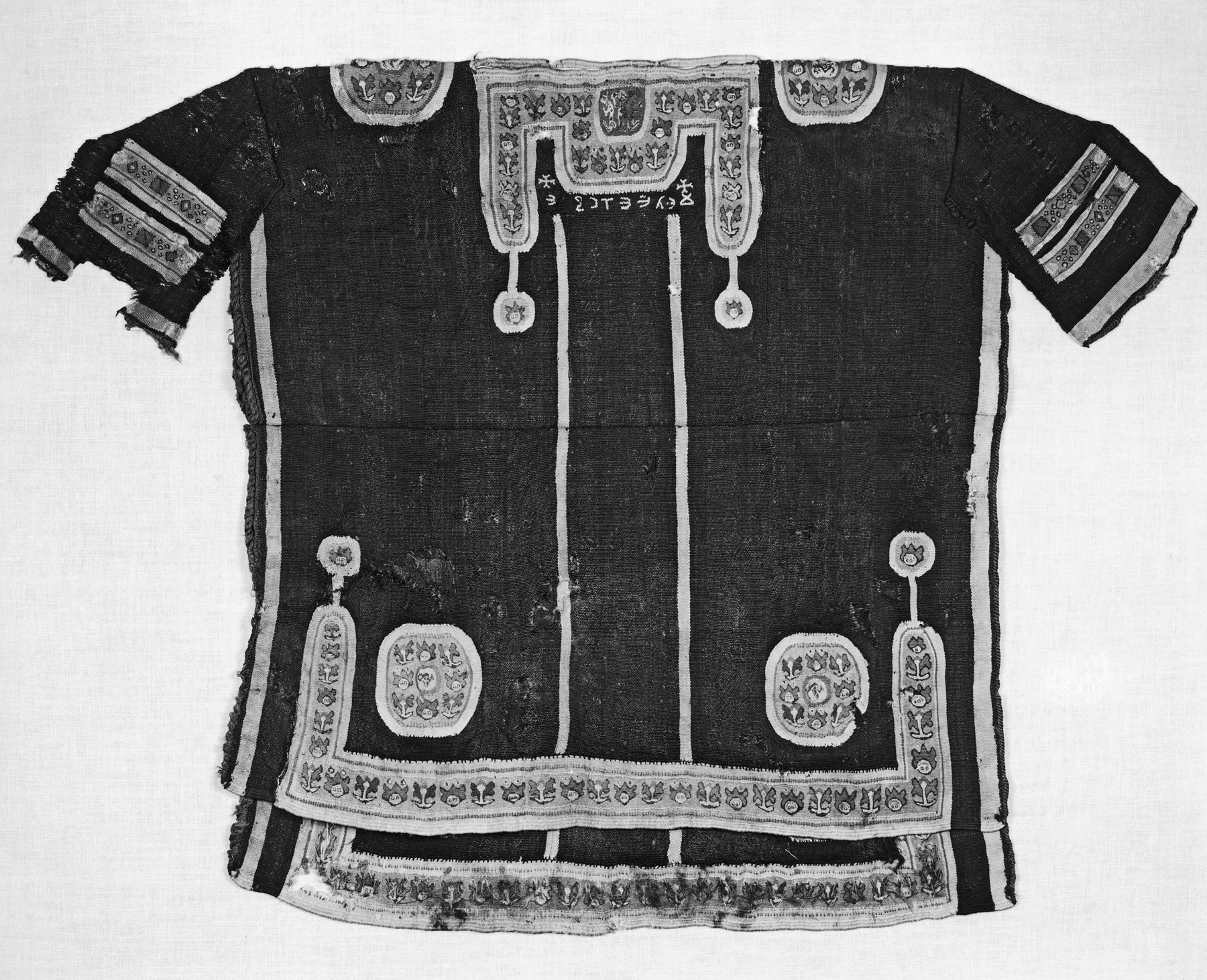 Given its small size, this tunic was probably made for a child. The ornamentation includes garlands, birds, and animals, all popular motifs in Early Byzantine Egypt. This type of tunic was worn by men, women, and children, and dates from as early as the 3rd century. The wool garment is woven in one piece, with colorful, decorative panels (segmenta), vertical strips (clavi), and neck and sleeve bands. Beneath the chest panel is often found an inscription giving the name and social rank of the tunic's owner.